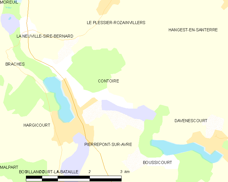 Map of French municipality Contoire